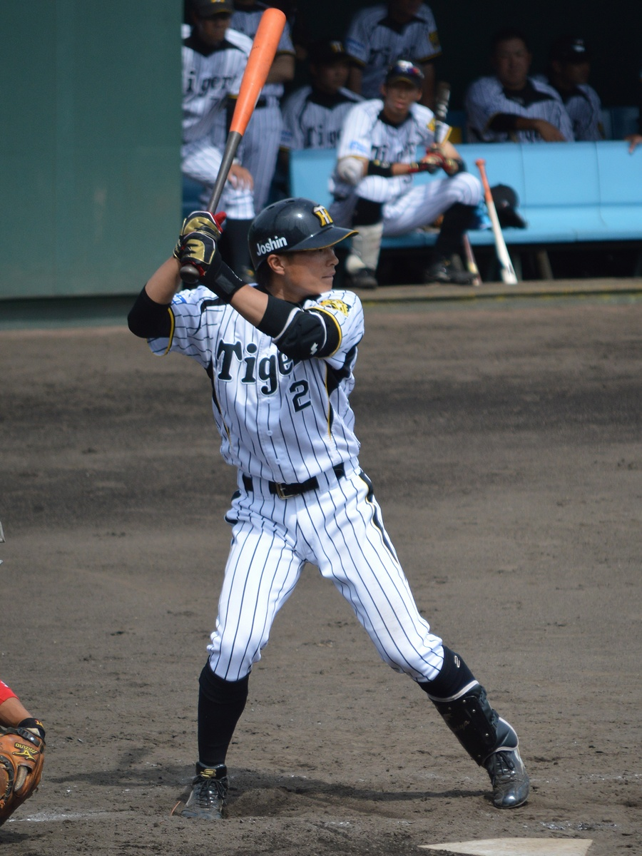 HT-Fumiya-houjyou20130605